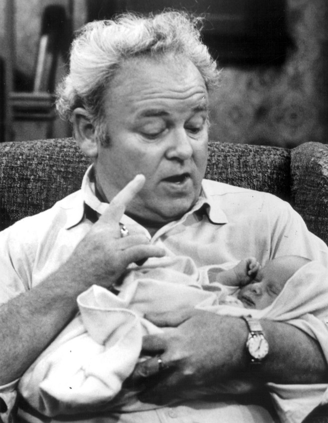 Publicity photo from All in the Family. Pictured are Archie Bunker (Carroll O'Connor) and his new grandson, Joey Stivic.